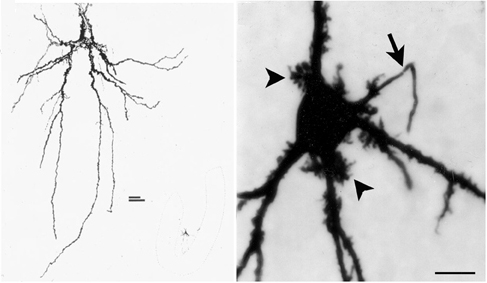 Hilar mossy cell